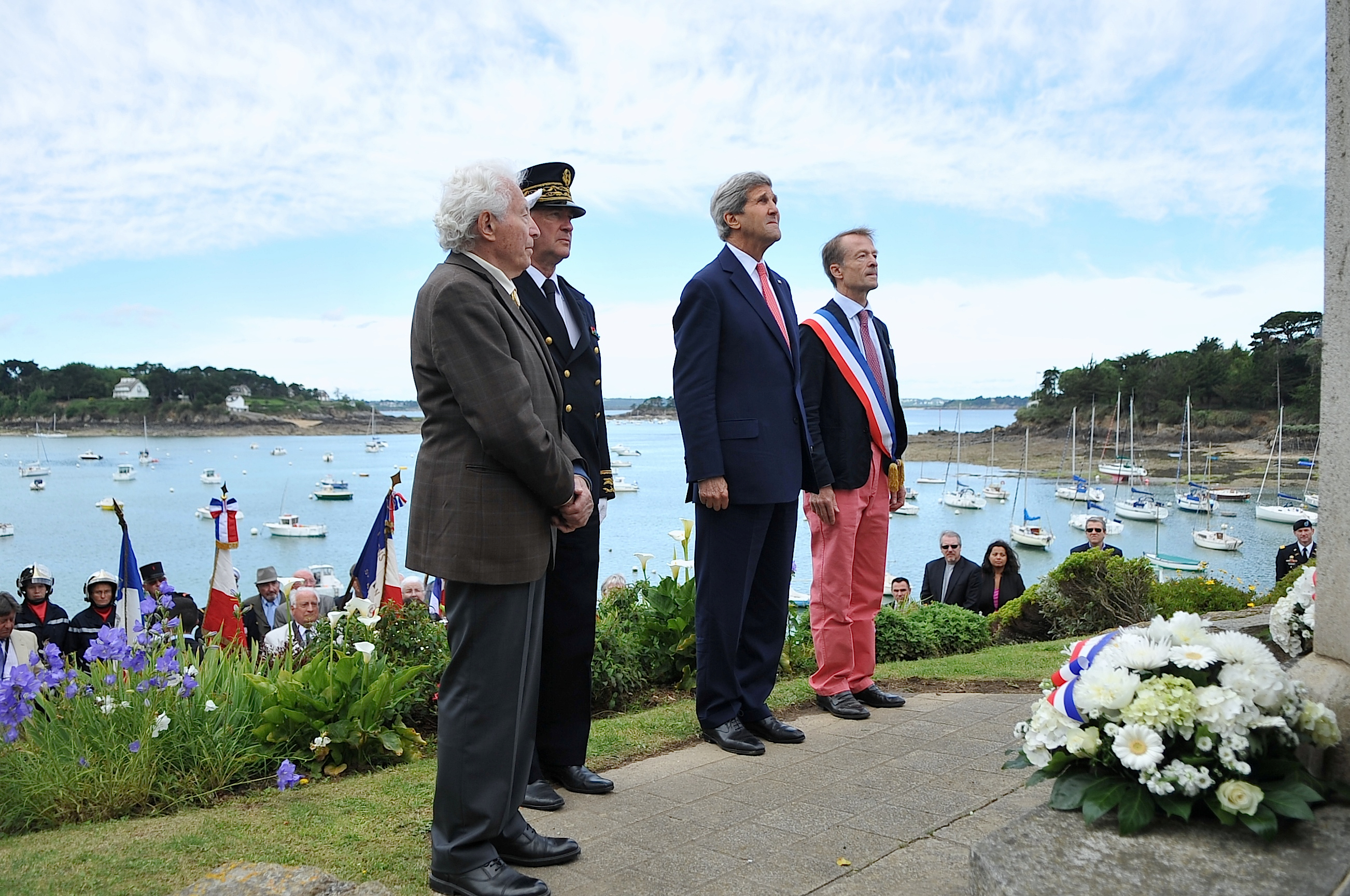 Secretary Kerry, Brittany Officials, Photographer Vaccaro Pay Tribute to American WWII Victims